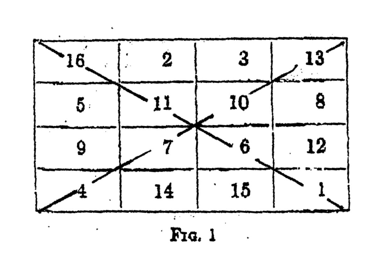 Figure 1 from an article on Mystic Squares on Wikipedia